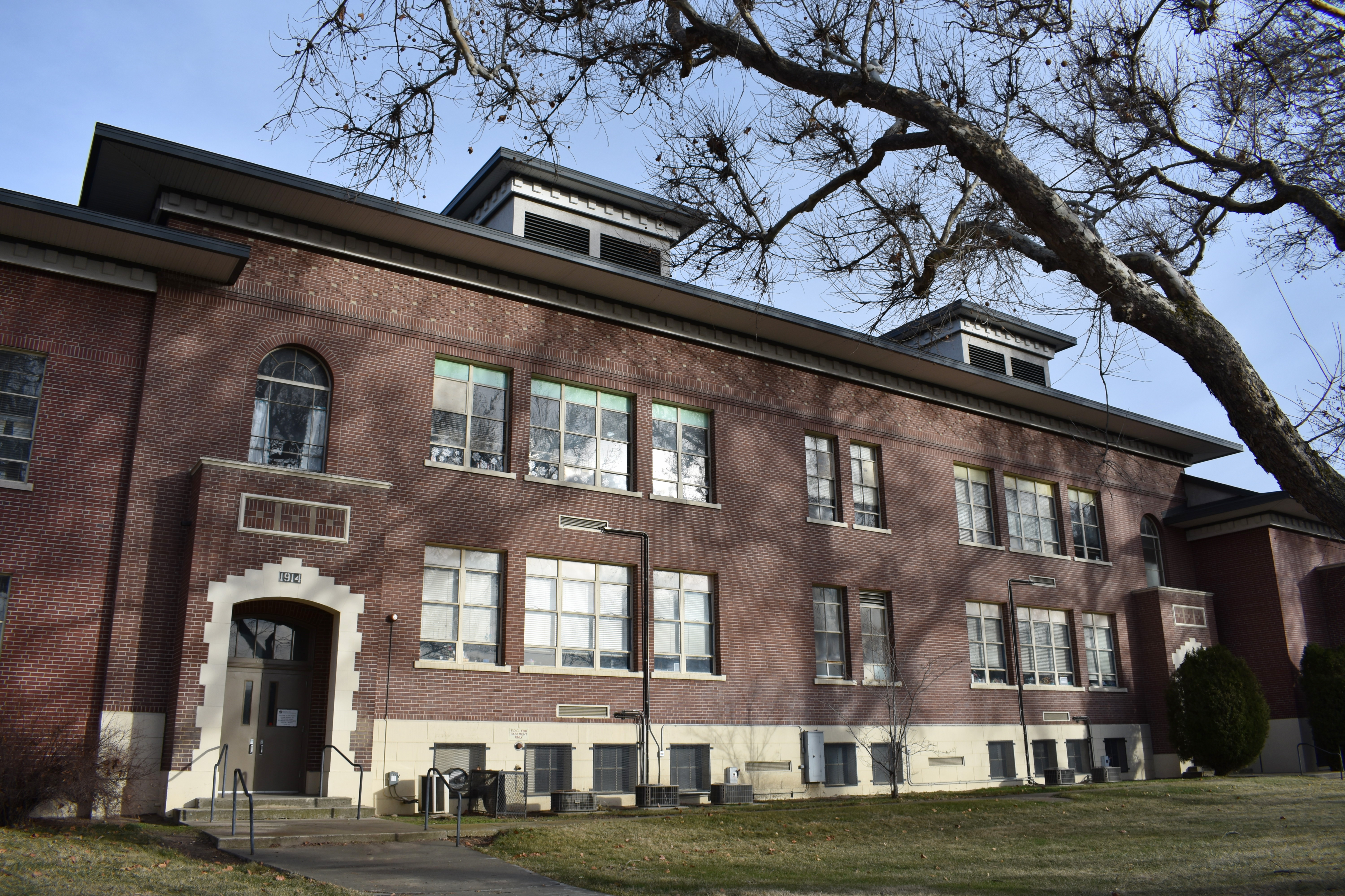 Garfield School (1929) in Boise, Idaho, was designed by Tourtellotte & Hummel and is listed on the National Register of Historic Places. The building was expanded in 1949 and in 1959.